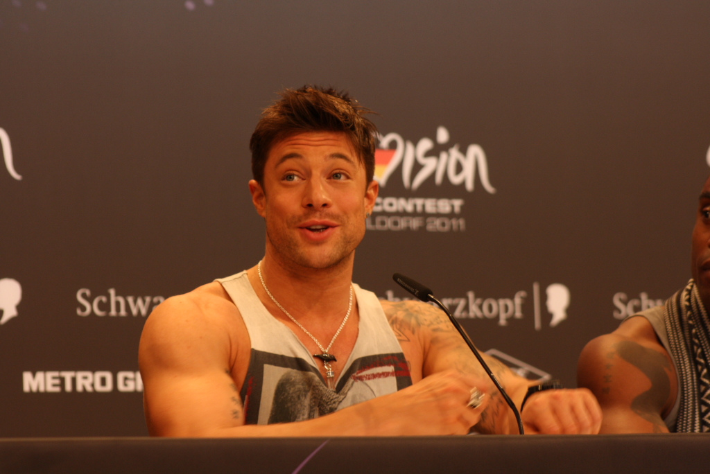 English singer, actor and television presenter Duncan James